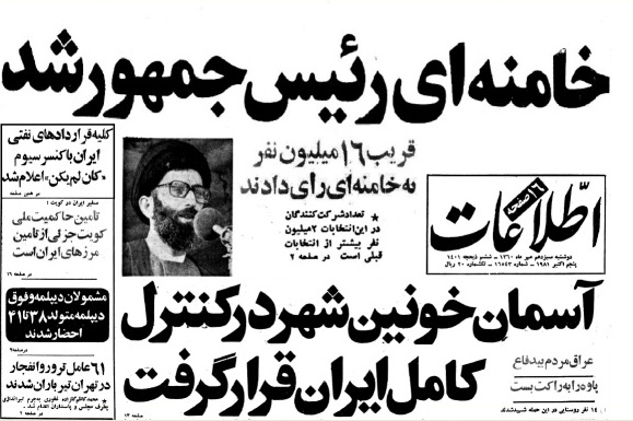 Paper news Khamenei was voted as Iran president.